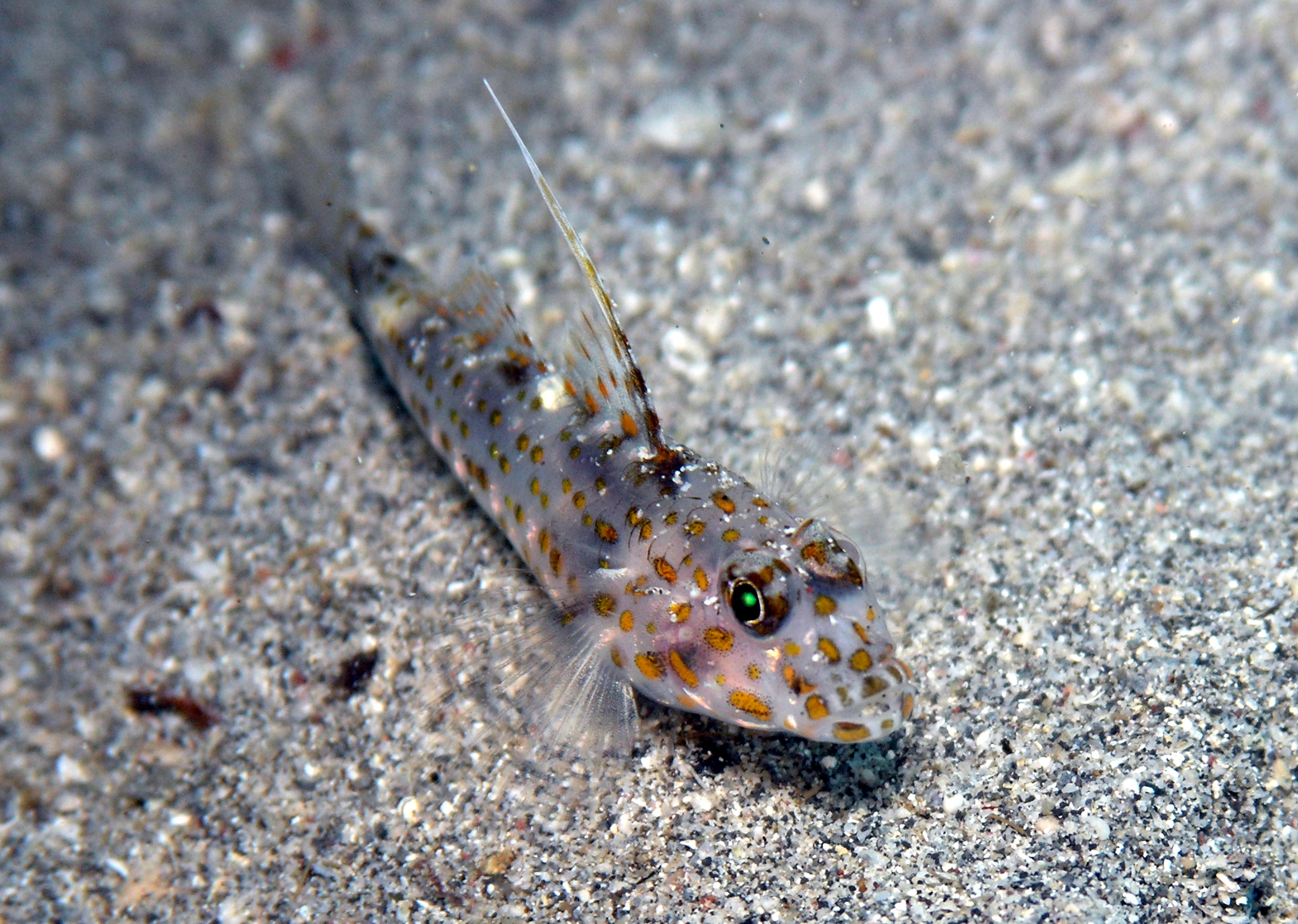 Image of a Tangaroa shrimp-goby. Ctenogobiops tangaroai. Taken off Bunaken Island, North Sulawesai, Indonesia.